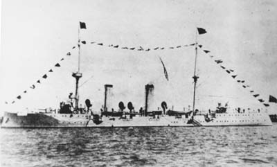 Hai Shew, a Chinese cruiser